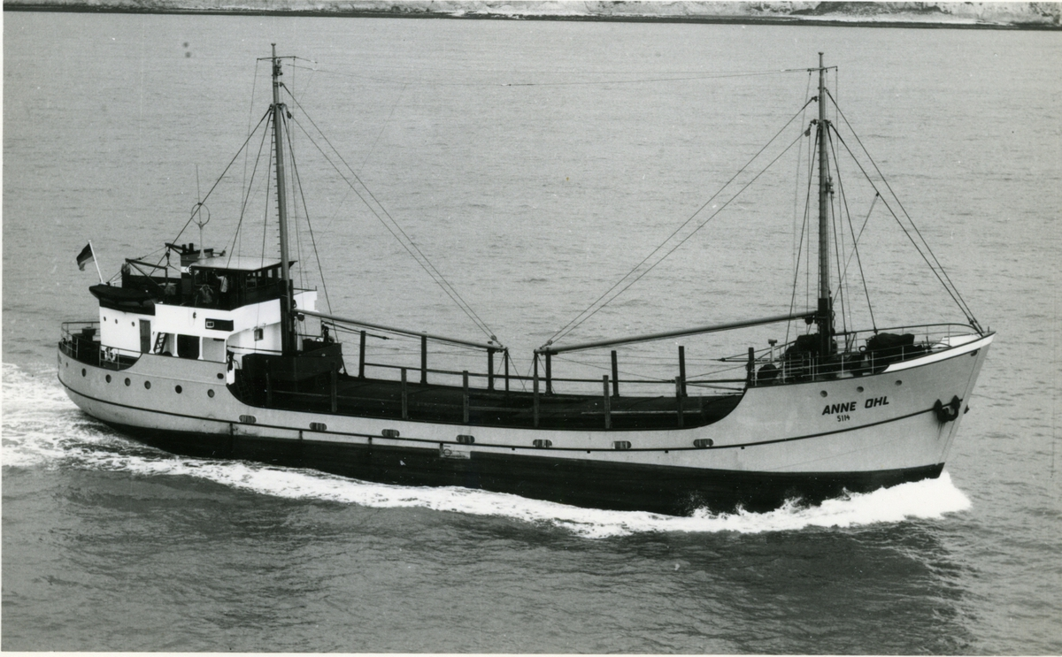 German coaster ANNE OHL (IMO 5018973) built at Schiffswerft Hugo Peters, Wewelsfleth (yard № 463/60, launched: 07-10-1950, delivered: 09-12-1950), 1957 lengthened at Staatswerft Saatsee, Rendsburg; collection J. Robert Boman (1926 - 2002) owned by Sjöhistoriska museet.